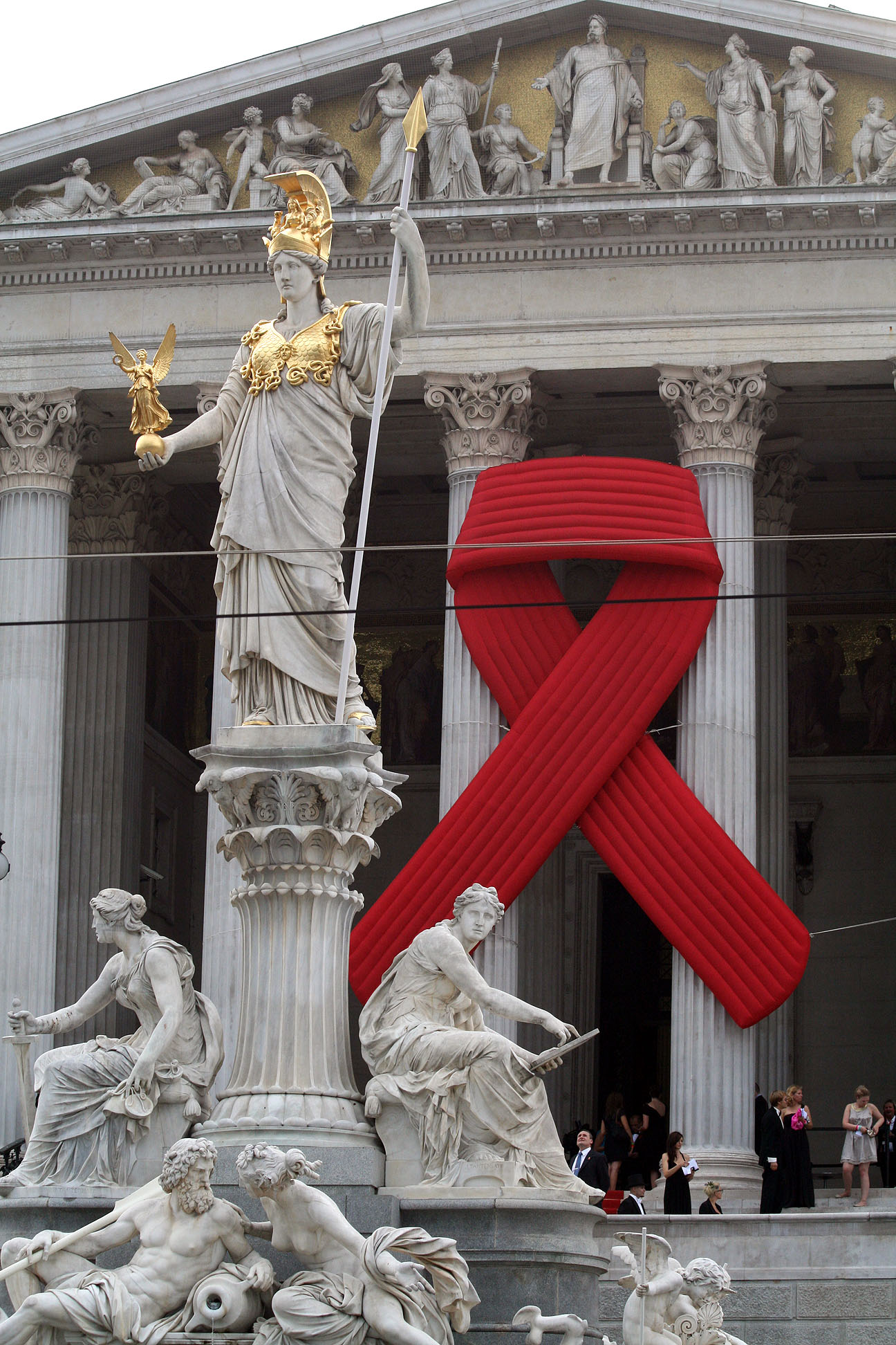 The Parliament Building in Vienna, Austria, during the amfAR gala 2010..